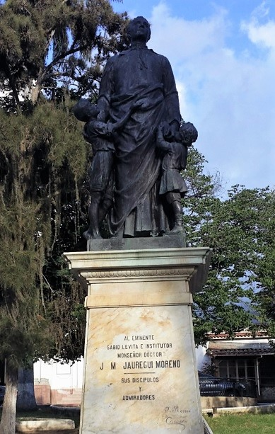 Monumento a Jesús Manuel Jáuregui ubicado en la plaza que lleva su mismo nombre. La Grita, Estado Táchira, Venezuela.